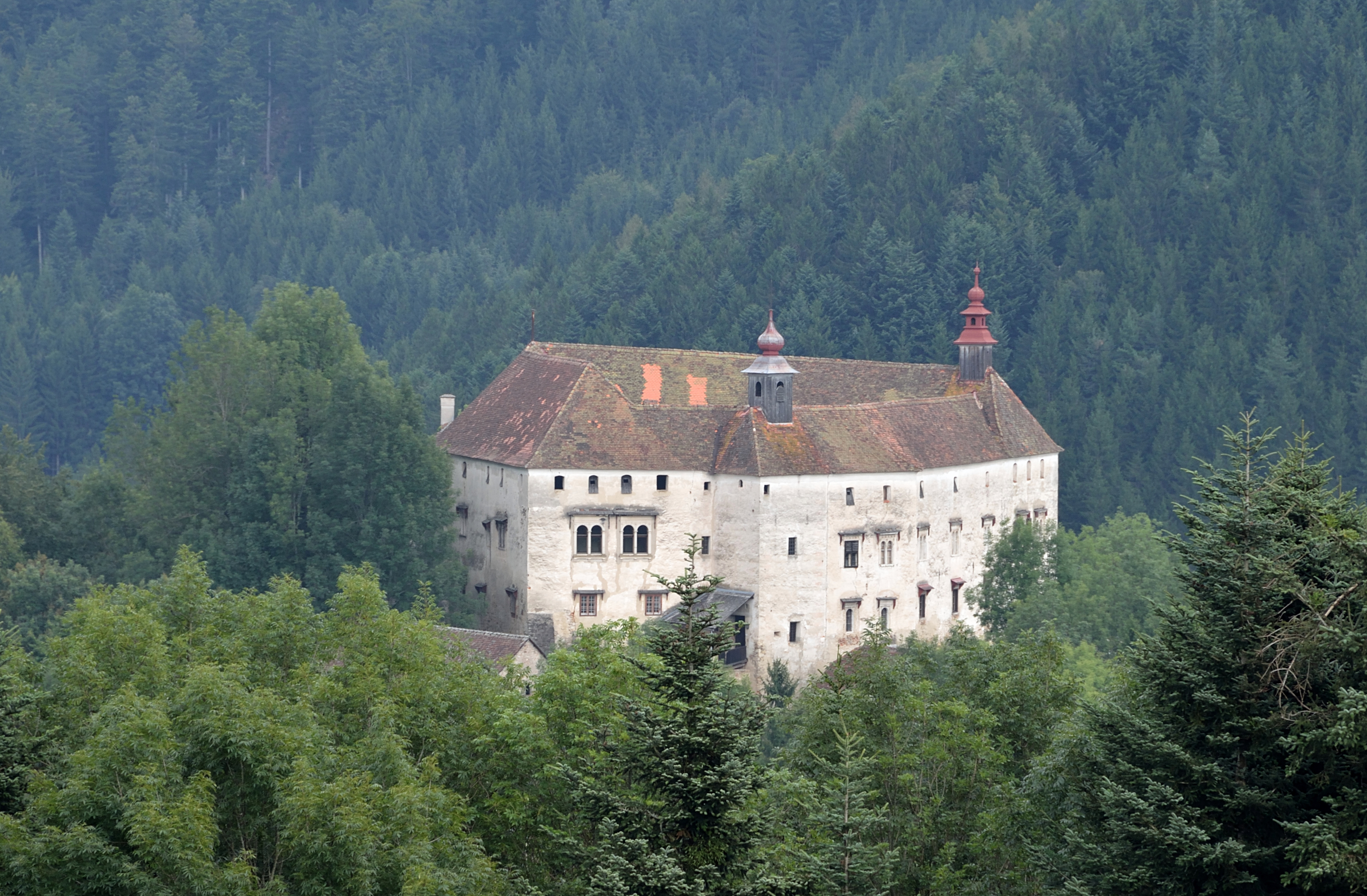 Castle Frondsberg in Koglhof, Styria. SW side.